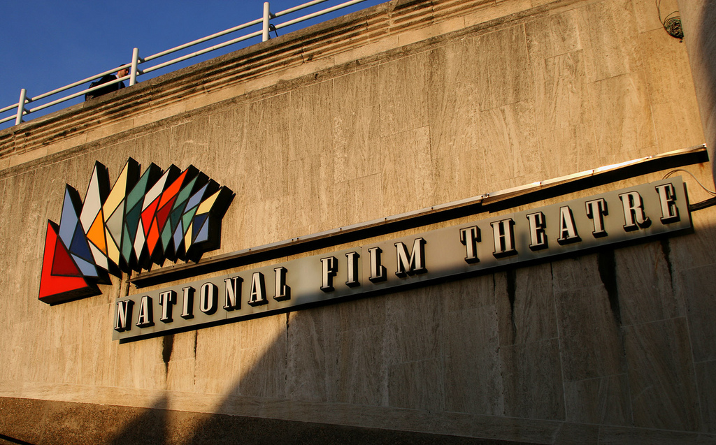 logo of the BFI Southbank, the former National Film Theatre in London